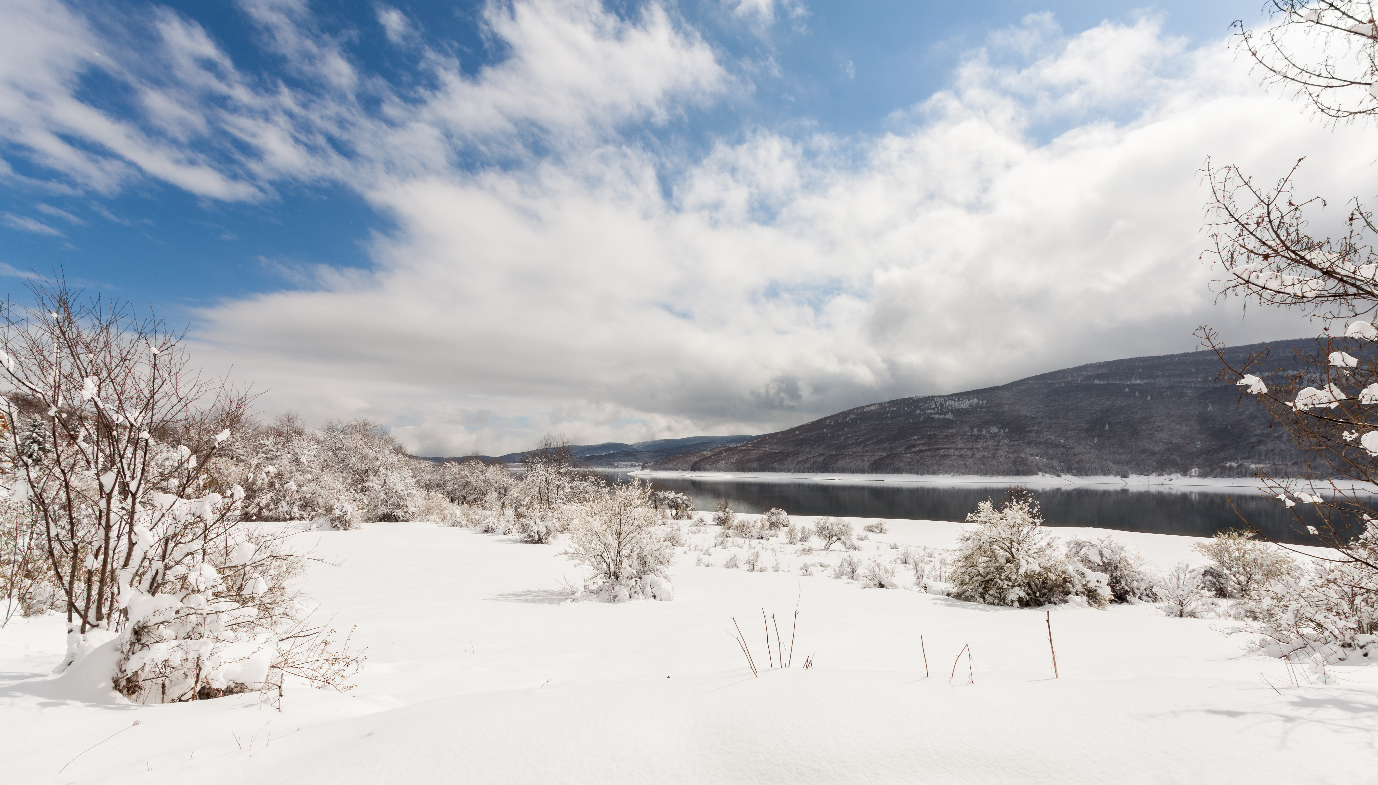 Mavrovo Lake, Macedonia